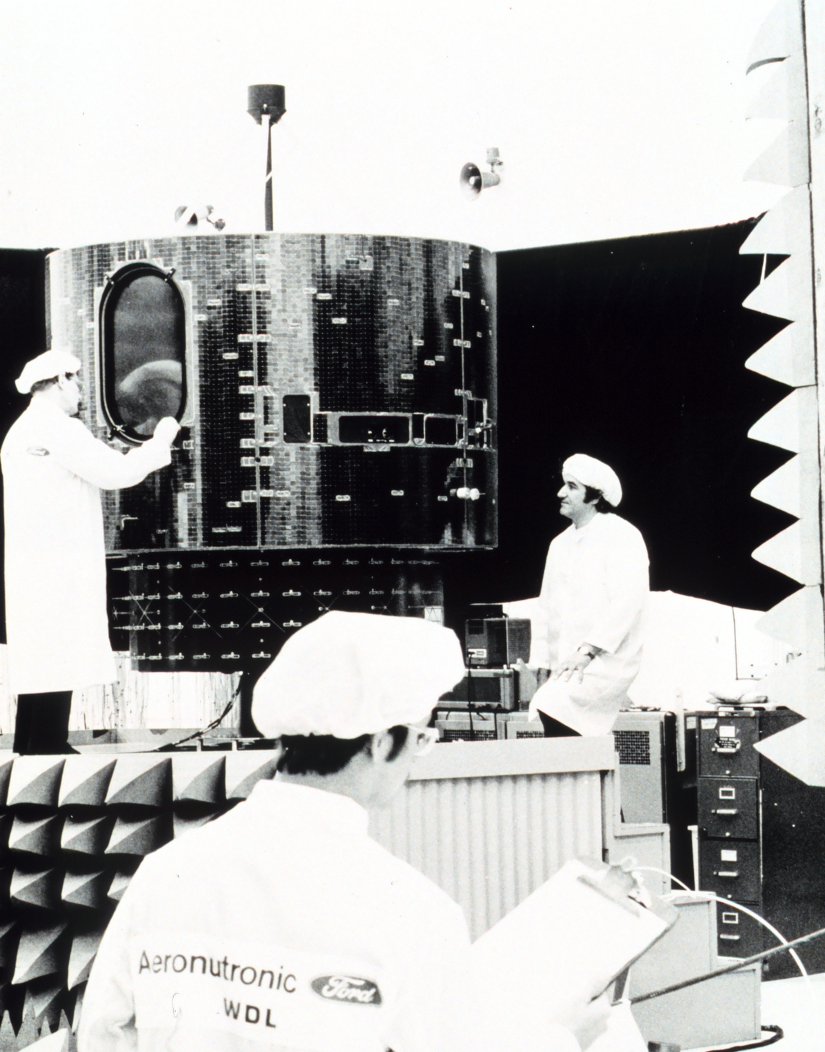 GOES-A undergoes checks at Aeronutronic Ford facility in Palo Alto, California.